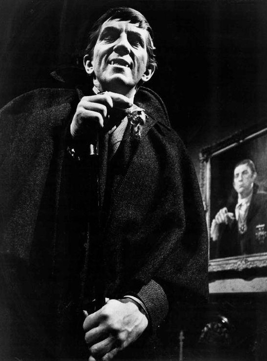 Photo of Jonathan Frid as Barnabas Collins from the daytime drama Dark Shadows.